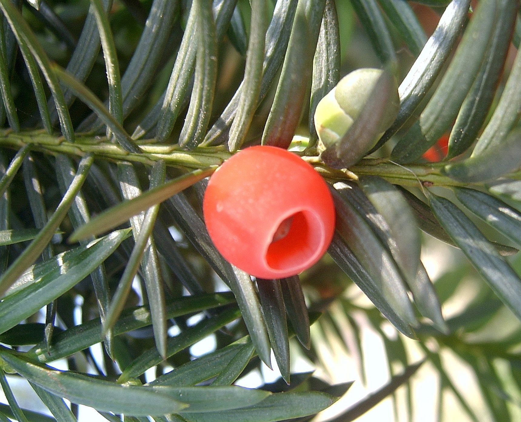 taxus arillus in Cloppenburg, Germany, August 2005.